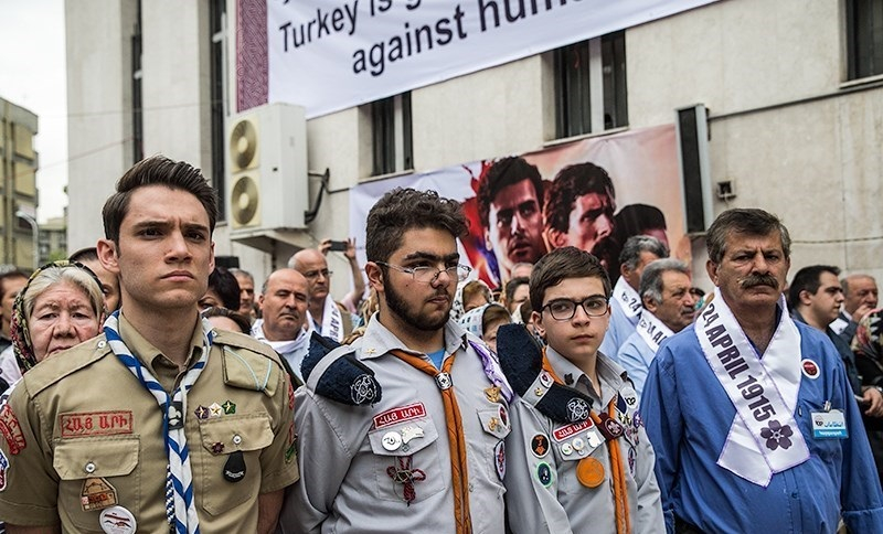 Armenian Genocide Remembrance Day in Saint Sarkis Cathedral, Tehran